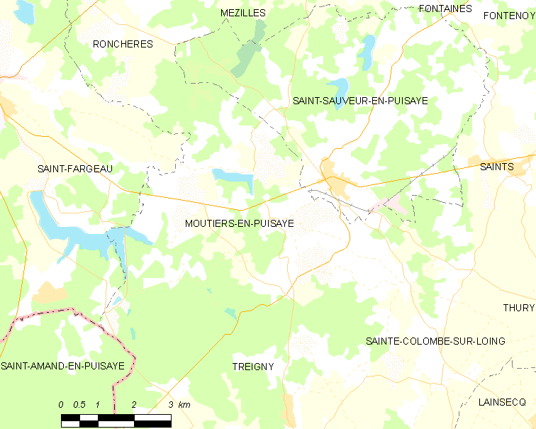 Map of French municipality Moutiers-en-Puisaye